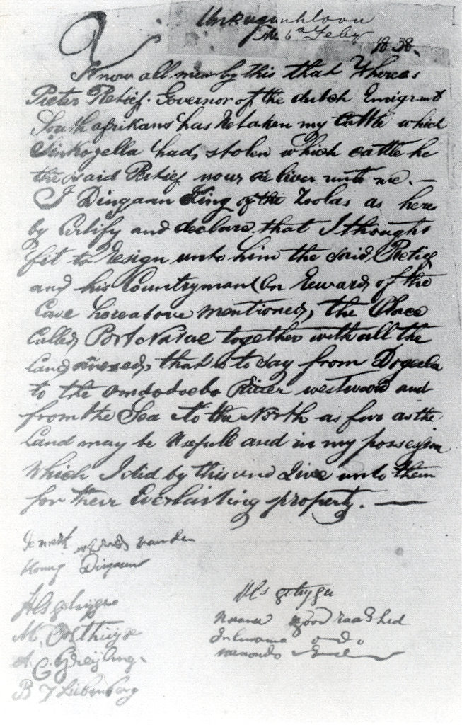 A copy of the treaty between Retief and Dingane, dated 4 February 1838. It was found 10 months later, in a saddle bag near Retief's earthly remains. Unkuginsloave The 4th February 1838.- [corrected to 6 o February] Know all men by this that whereas Pieter Retief Governor of the dutch Emigrant South Afrikans has retaken my cattle which Sinkoyella had stolen which cattle he the said Retief now deliver unto me. - I Dingaan, King of the Zoolas as here by certify and declare that I thought fit to resign unto him this said Retief And his countrymen (in reward of the case hereabove mentioned) the Place called Port Natal together with all the land annexed, that is to say from Dogeela to the Omdodoebo River westward and from the Sea to the North as far as the Land may be useful and in my possession which I did by this and give unto them for their Everlasting property.- De merk XX van die Koning Dingaan Als getuijgen M. Oosthuijse A.C. Greyling B.J. Liebenberg Als getuijgen Kwana Groot raadslid Juliwanco ditto Manondo ditto To which was later attached E.F. Potgieter's certificate (translated): I certify that this written contract was found by us undersigned on the skeleton of the late Mr. P. Retief, in Dingaan's Country, on the 21st day of December 1838, in a leather wallet. If required we are willing to confirm this by solemn Oath. E.F. Potgieter